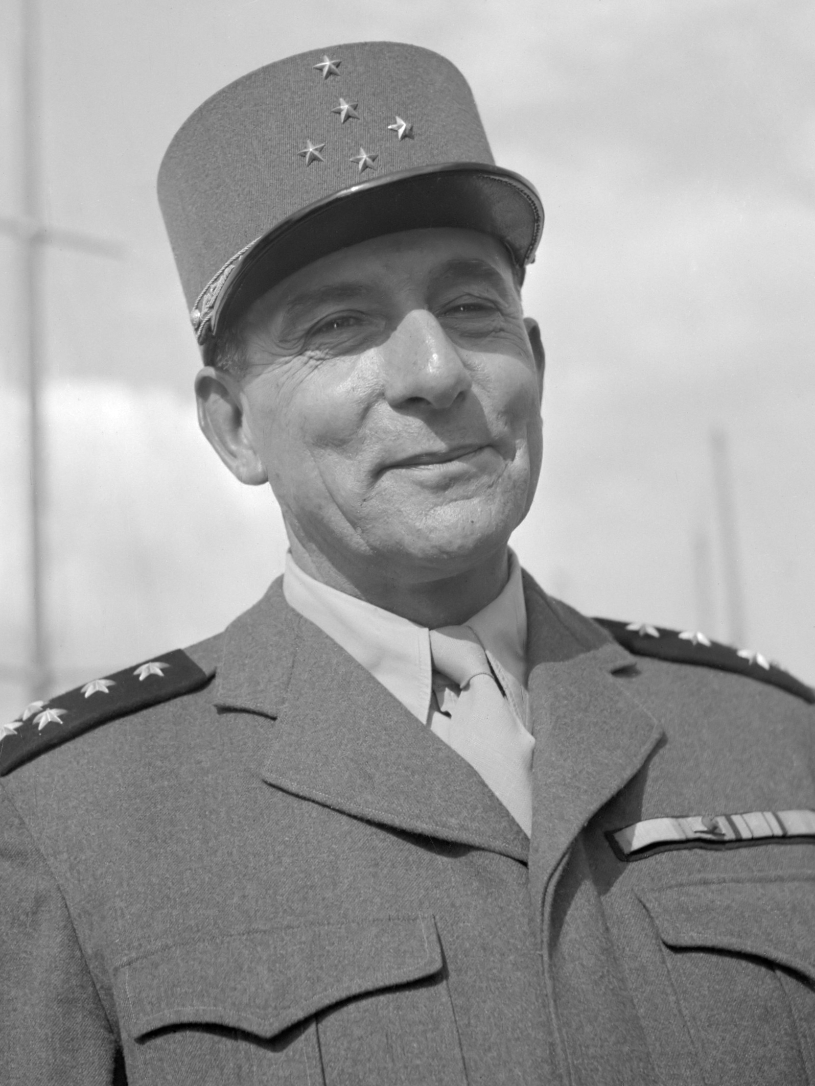 De koninklijke familie aan boord van het koninklijk jacht de Piet Hein. De Franse generaal de Lattre de Tassigny aan dek 1946